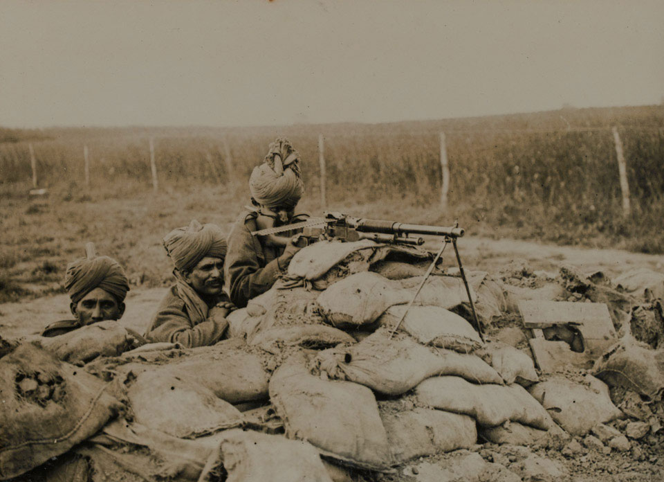 A Benet-Mercier machine gun section of 2nd Rajput Light Infantry in action in Flanders, during the winter of 1914-15.